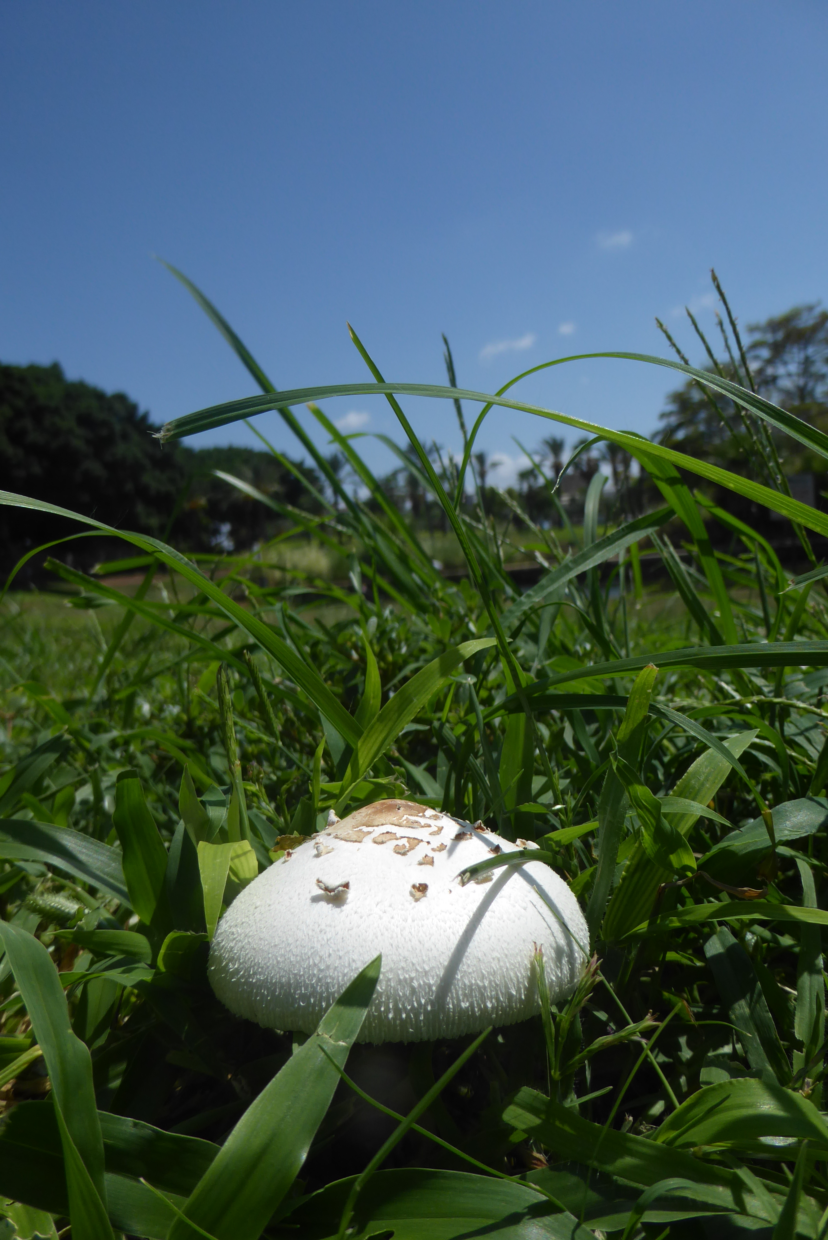 Edith Wolfson Park